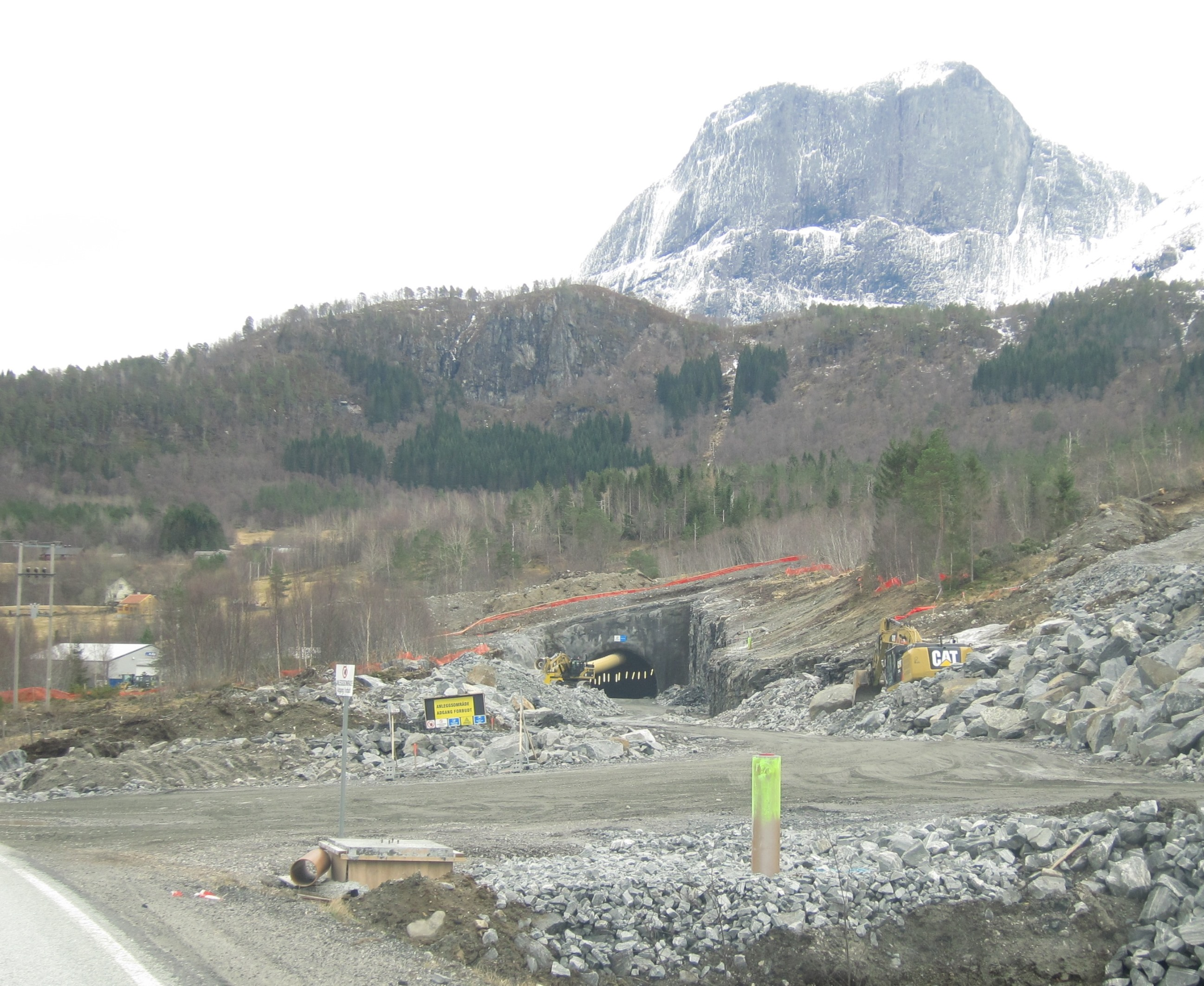 Vågstrand tunnel construction, road E136, Møre og Romsdal county, Norway